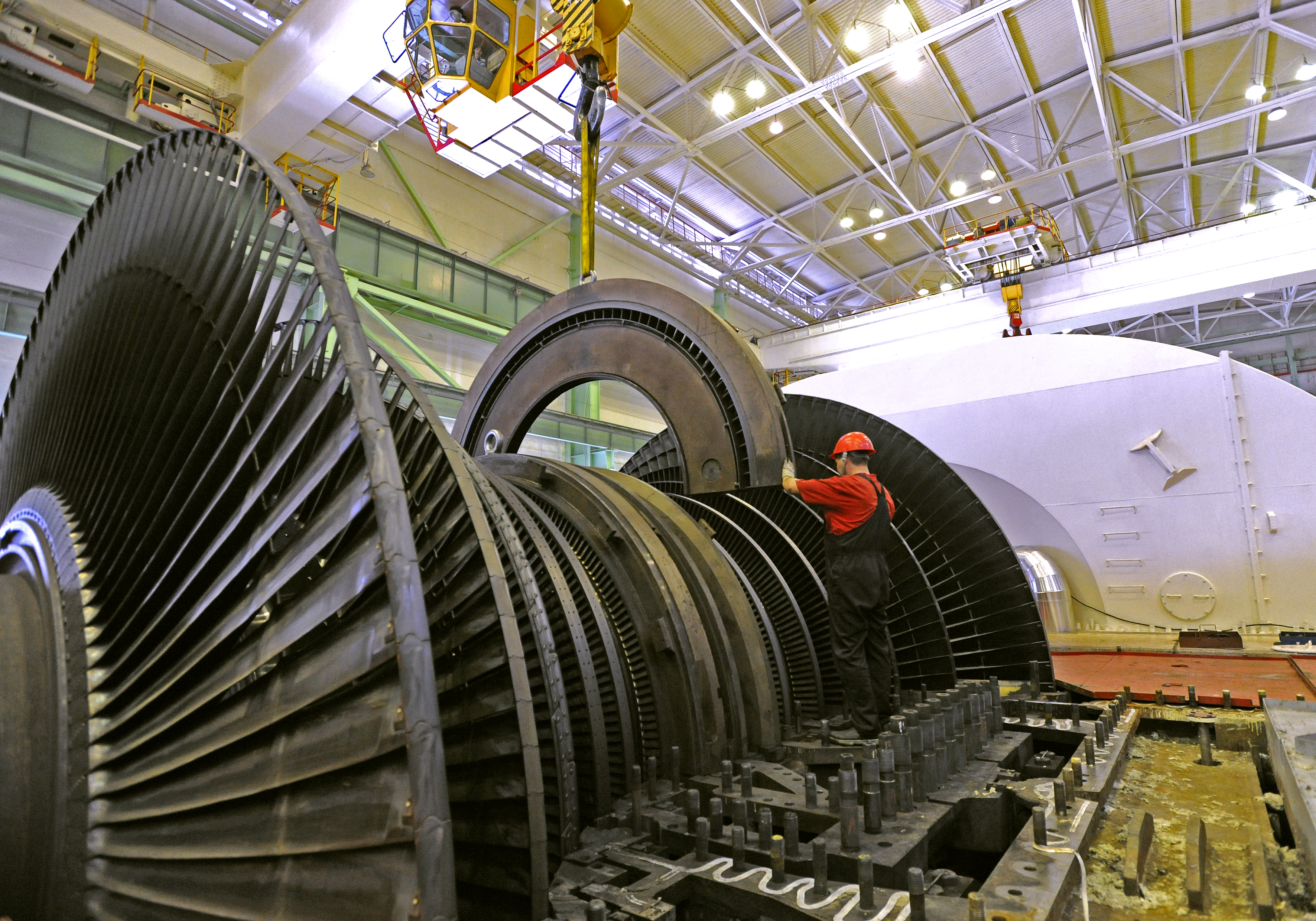 Maintenance of a low pressure section of a steam turbine at the Balakovo Nuclear Power Plant